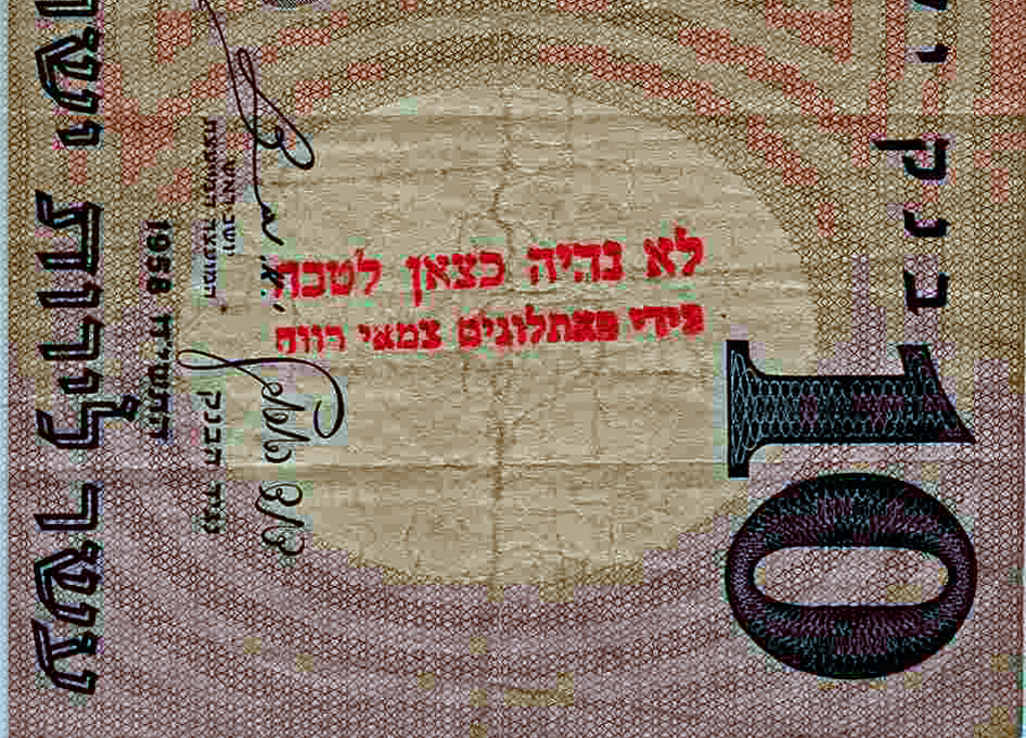 Ultra-Orthodox Jewish graffiti stamp on Israeli banknote (~1971) - "we won't allow greedy pathologists to treat us like lambs to the slaughter"